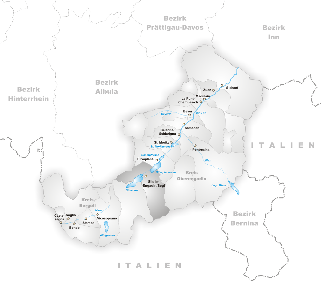 Municipality Sils im Engadin Segl